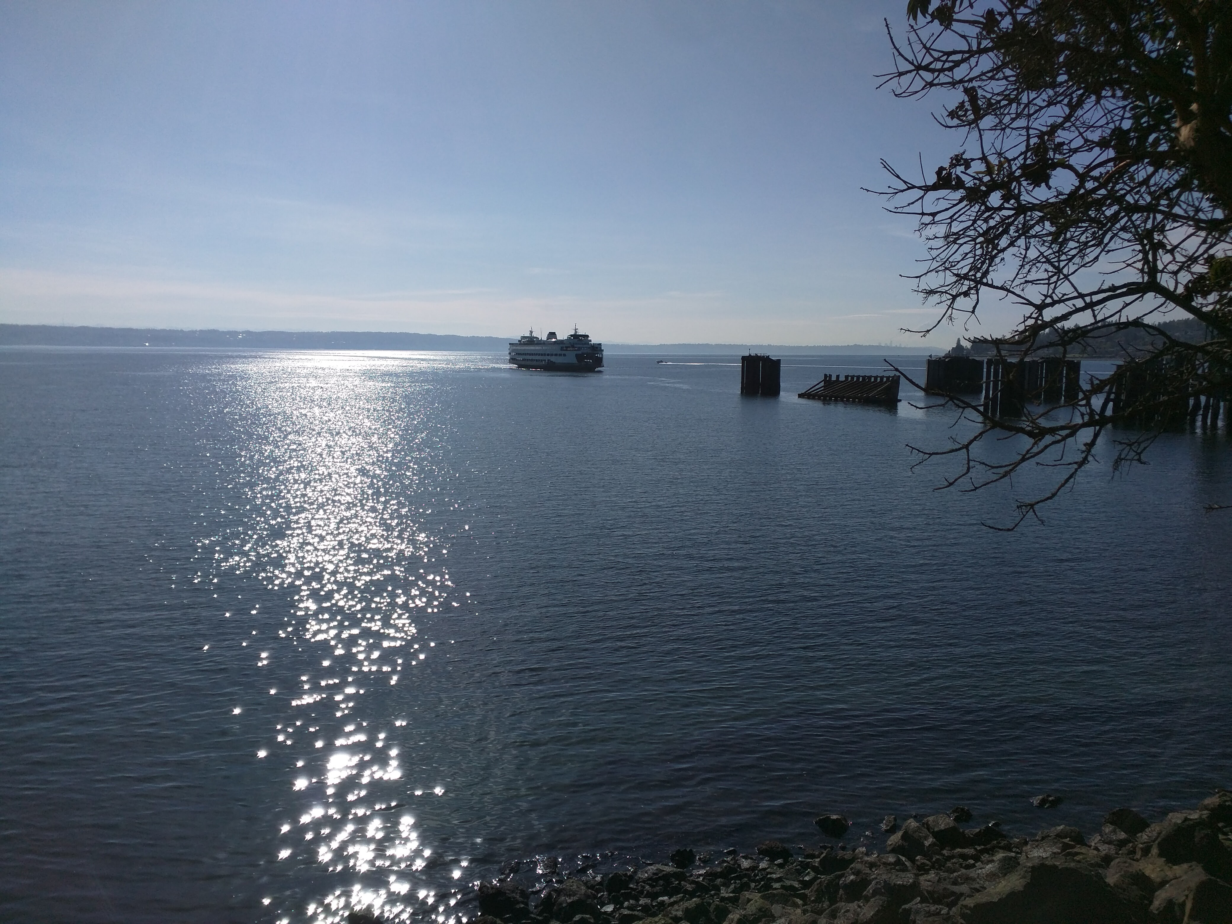 A Washington State Ferries vessel arriving at the Kingston terminal, from Edmonds, in Sept. 2015